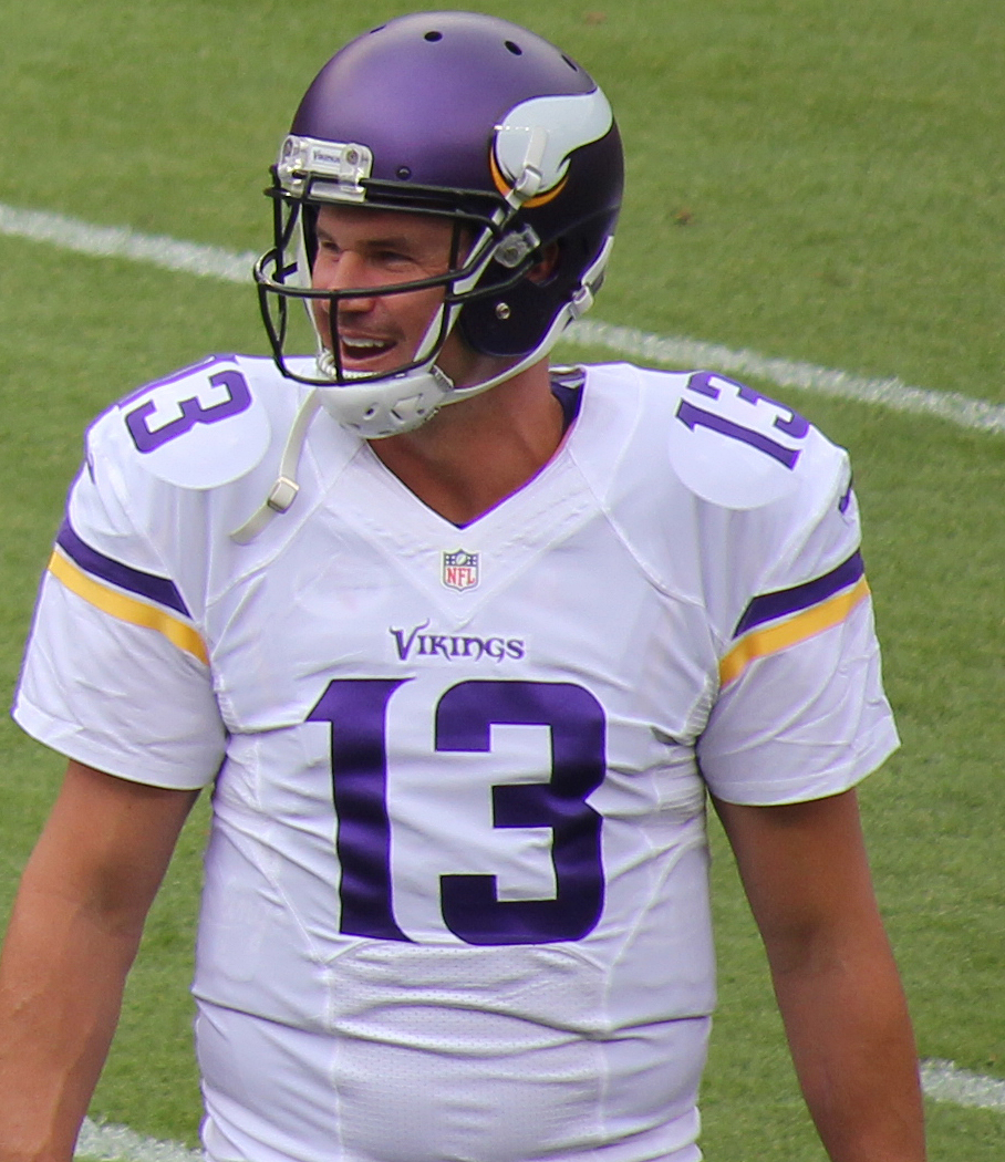 Shaun Hill, a player on the National Football League.